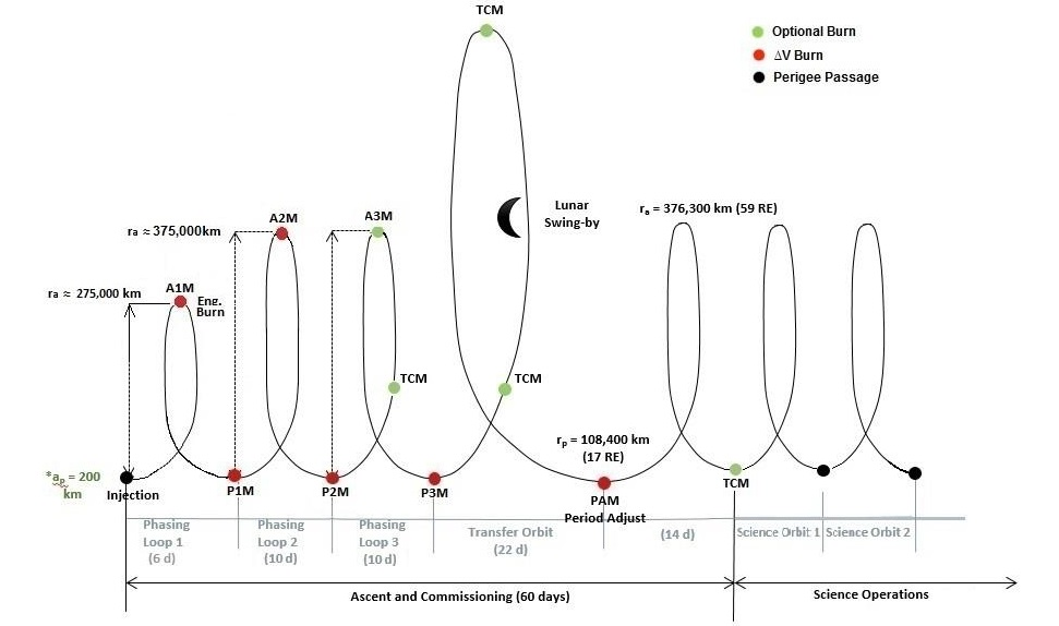 Planned flight path of TESS spacecraft needed for insertion into operational orbit